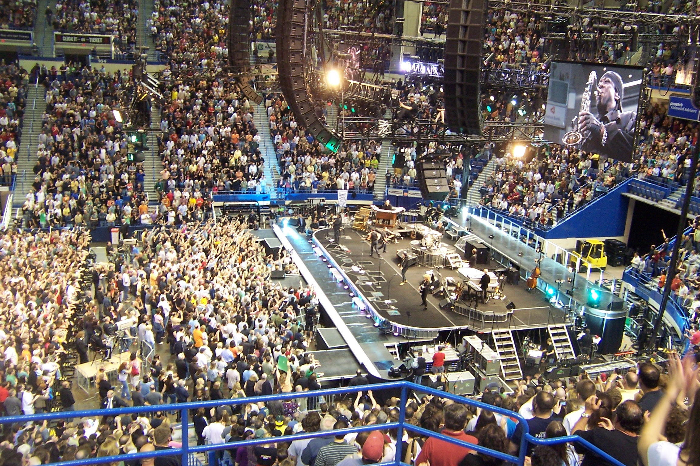 Clarence Clemons playing his "Born to Run" solo